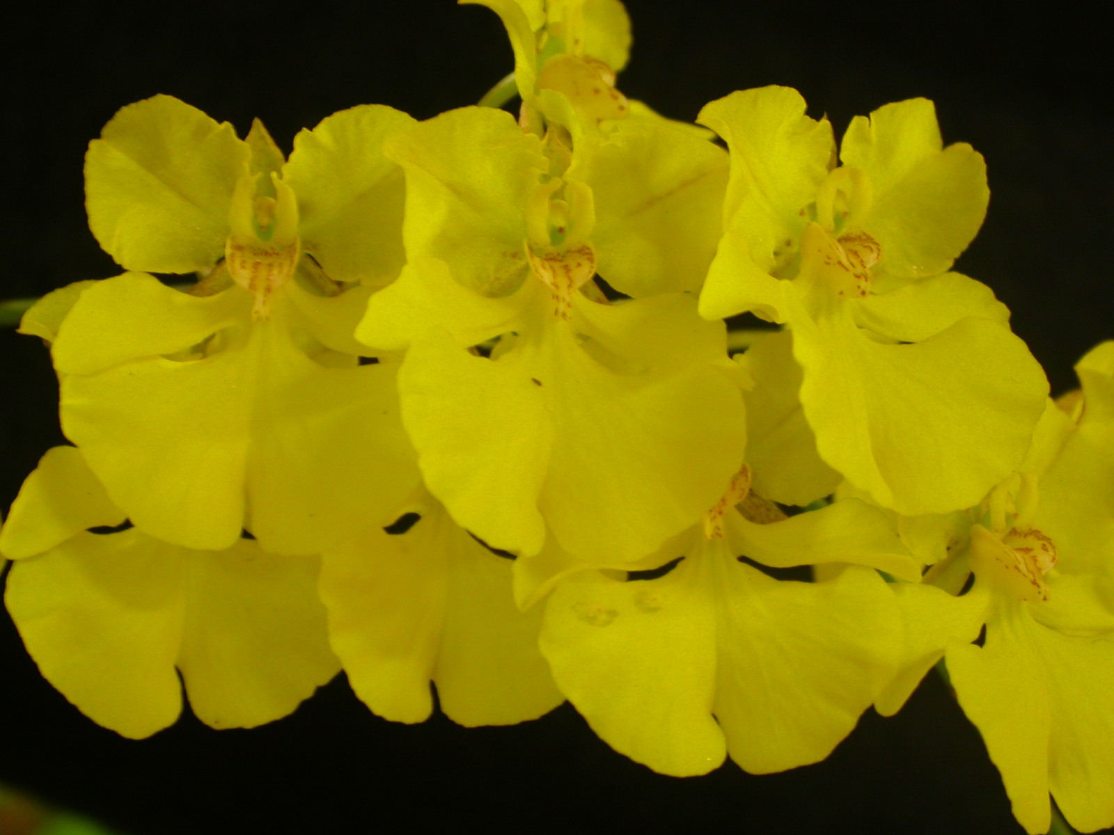 Zelenkoa onusta